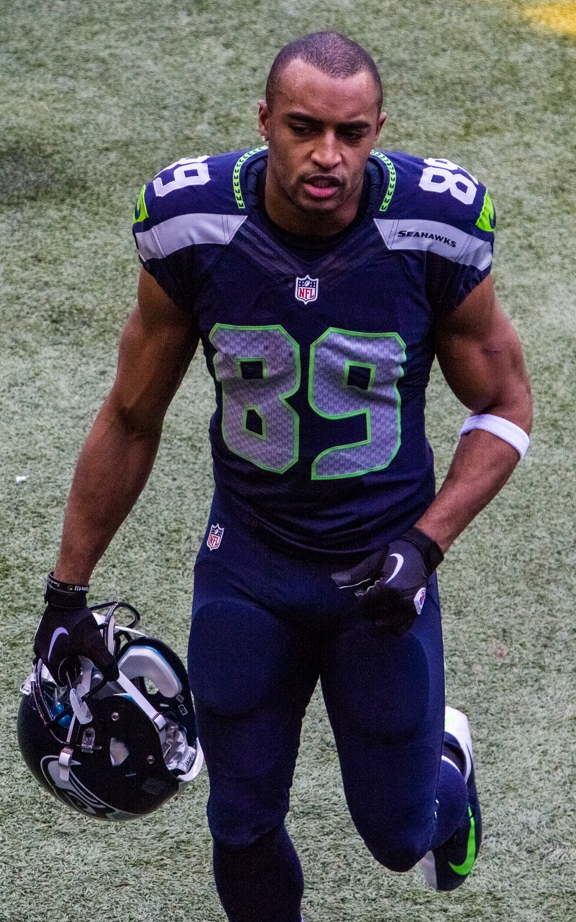 Doug Baldwin,Seahawks vs Rams 12.29.13